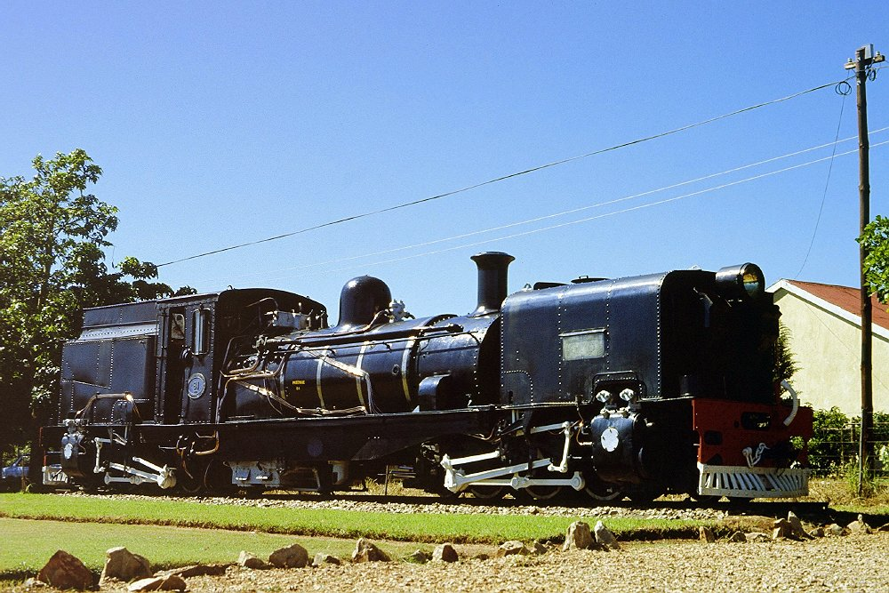 SAR class NGG13 at Patensie station, South Africa. Number of the locomotive shown is NGG 81, built by Hanomag, Hannover, Germany. According manufacturer plate: Hanomag Nr. 10633, 1928